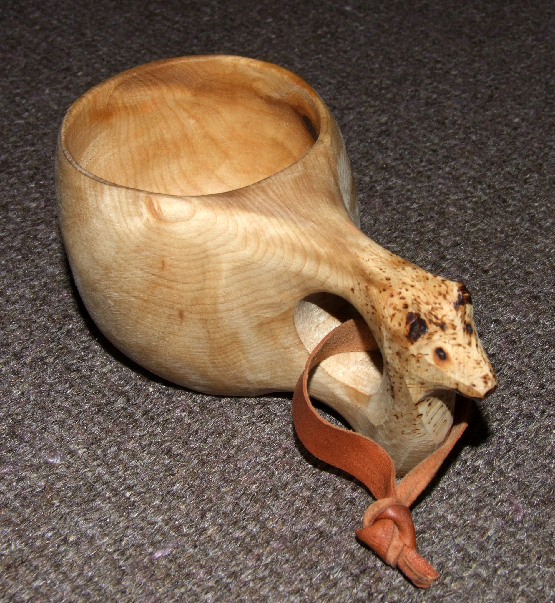 Kuksa - a coffee cup made of carved wood